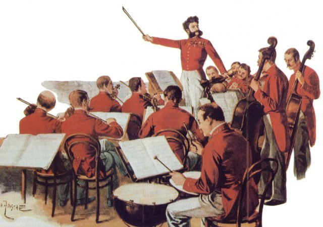 "Ball bei Hof" (watercolor painting on paper) by Theodor Zasche (1862-1922)